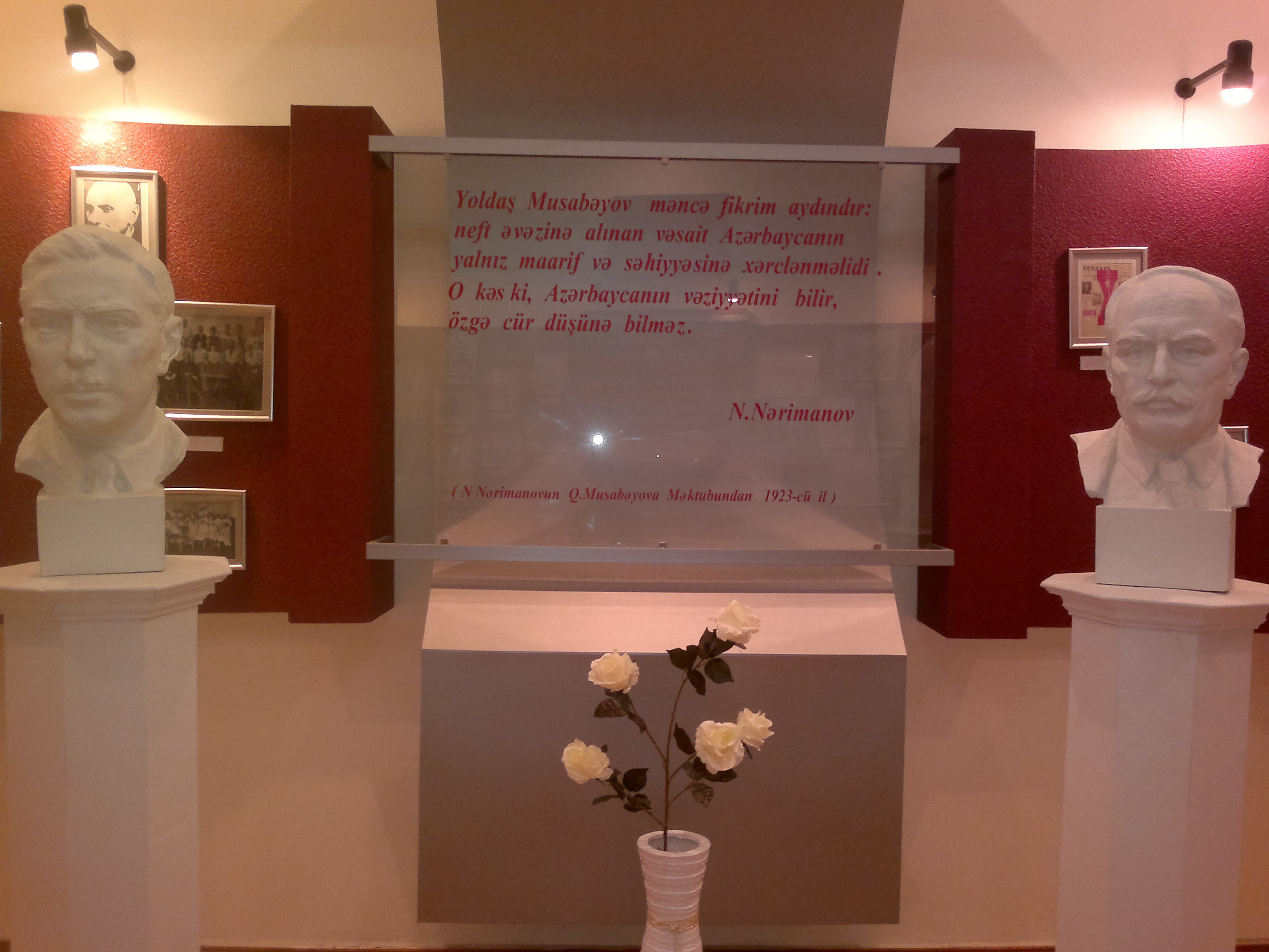 Letter of Narimanov to Musabekov